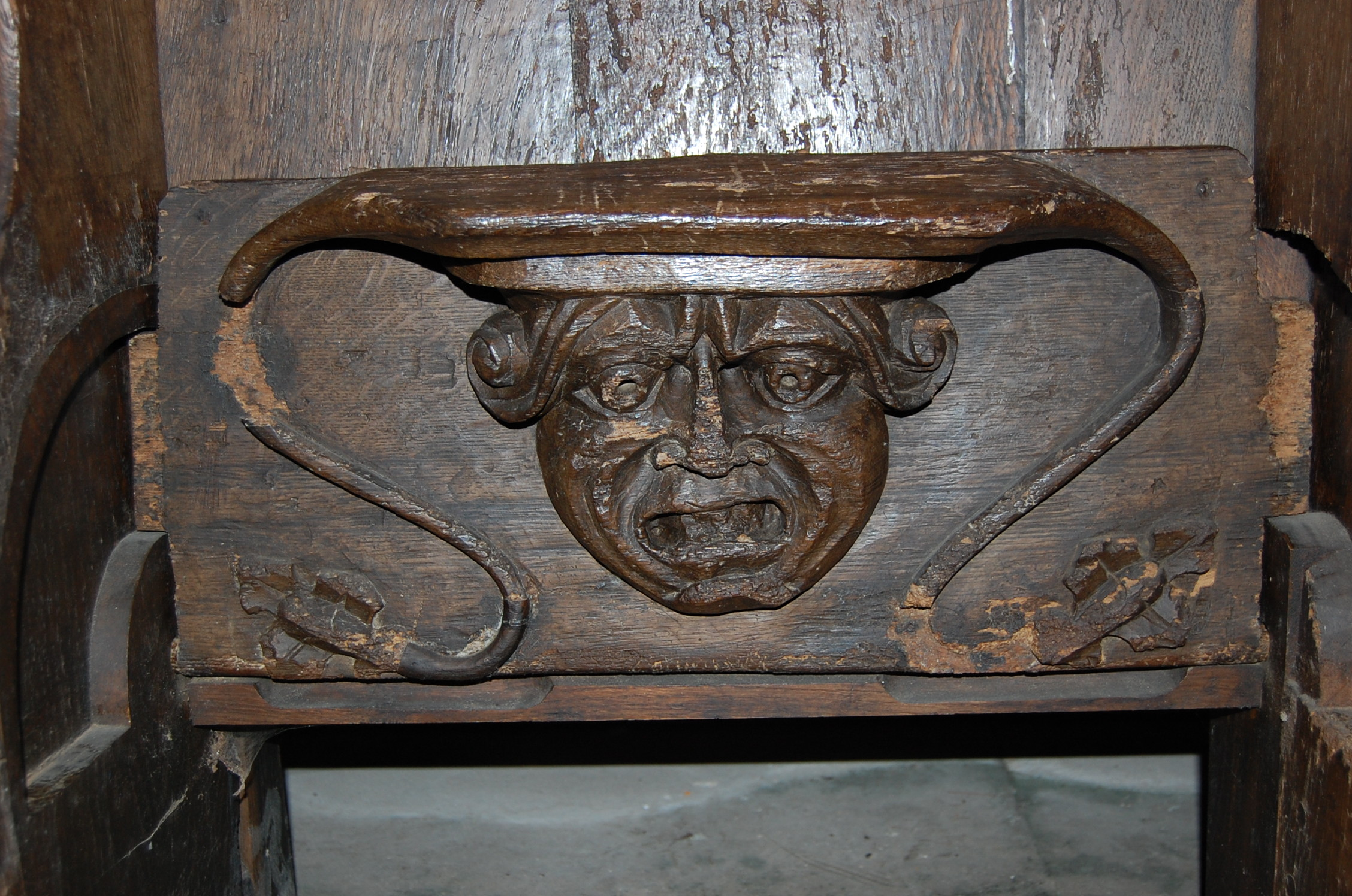 15th century medieval misericord in the south aisle of St Cuthbert's Church, Holme Lacy, Herefordshire.